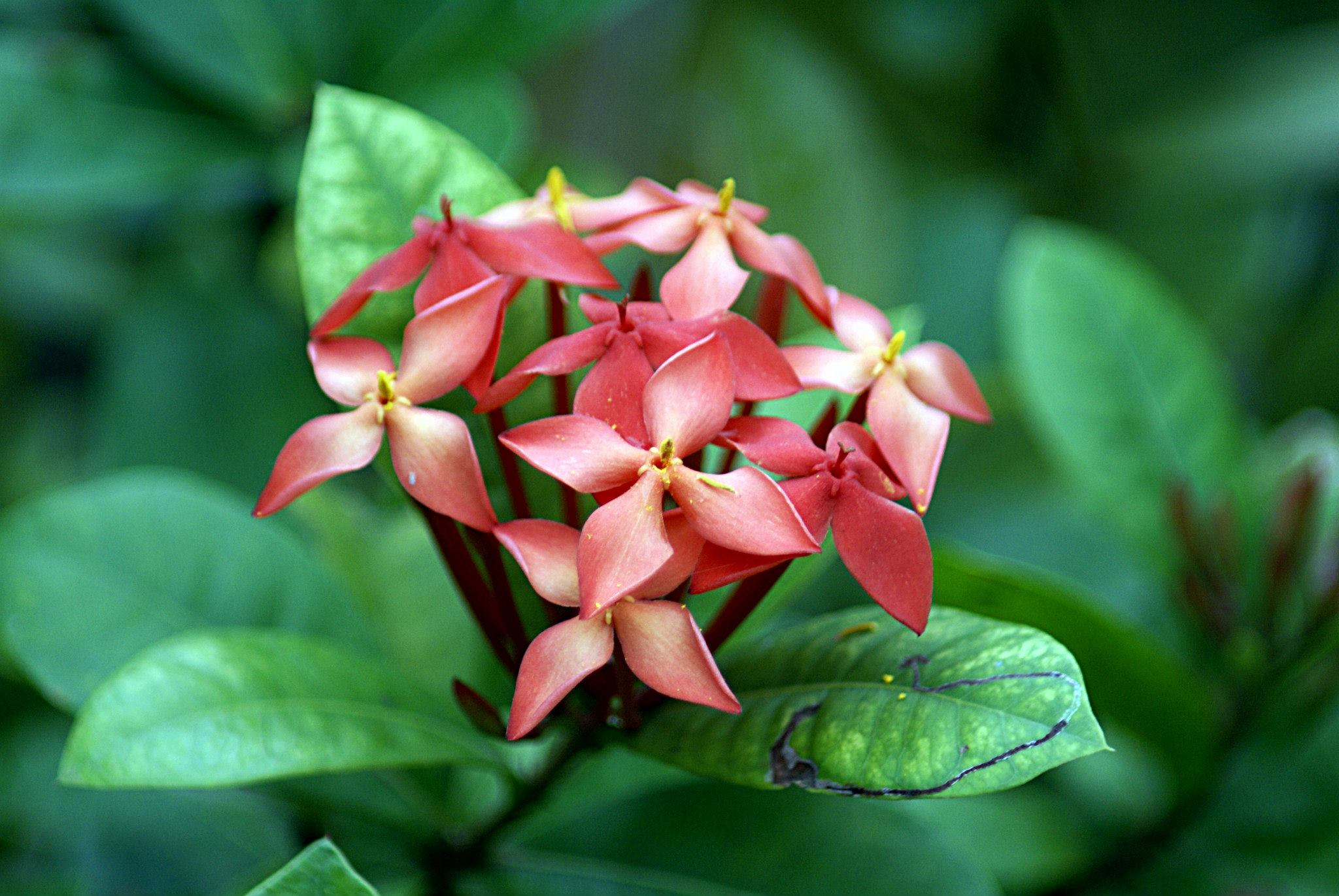 Botanical name: Ixora coccinea Family: Rubiaceae Common names: Jungle flame, Needle flower, Flame of the Woods, Jungle Geranium Location: Kerala, India